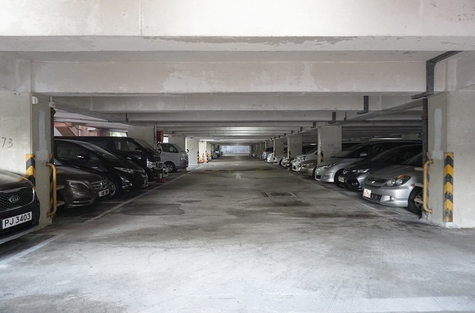 Ping Tin Estate in Lam Tin, Hong Kong.